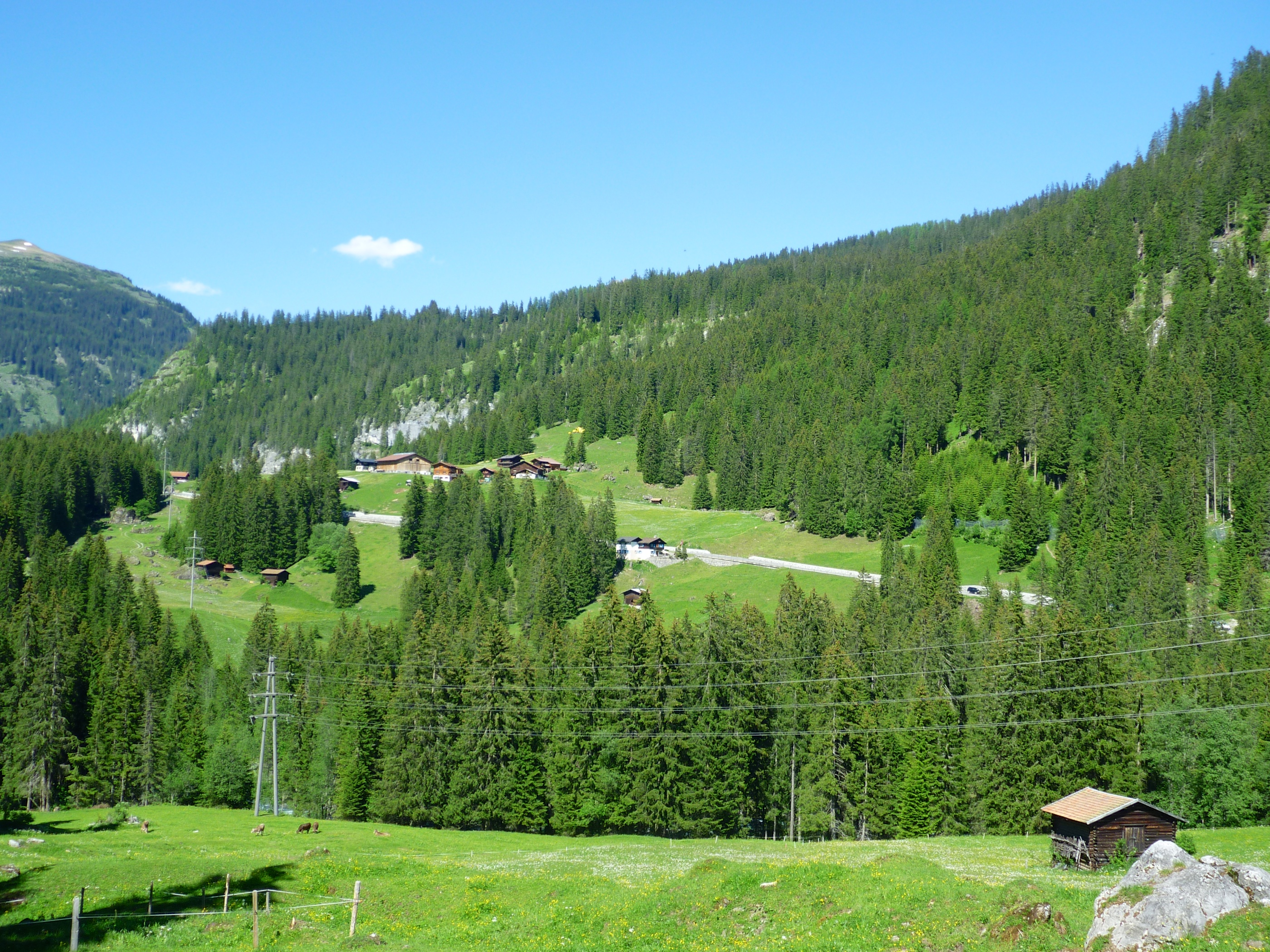 Sunnenrüti seen from Litzirüti, Arosa/Switzerland